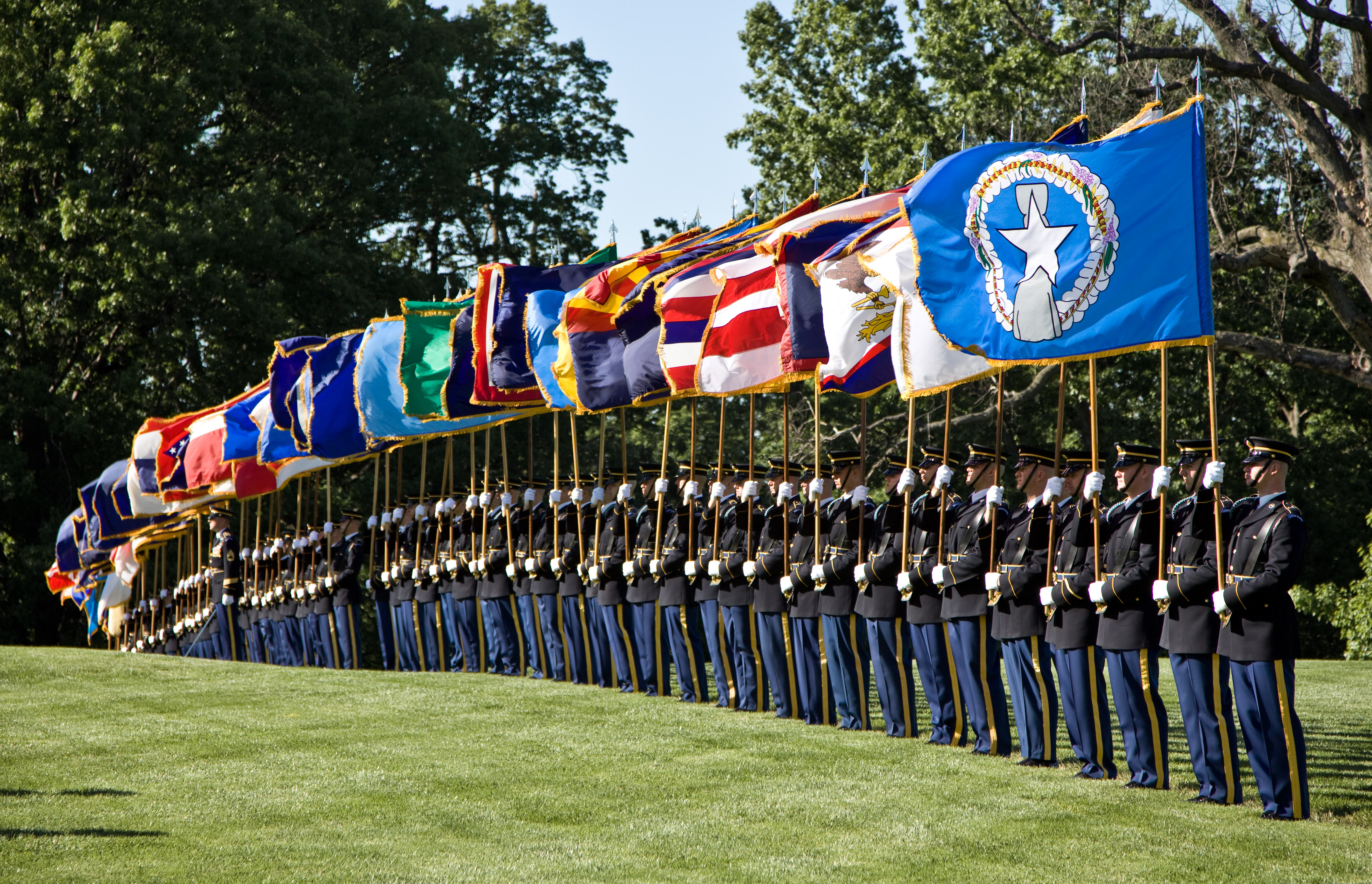 U.S. Army Soldiers from the 3rd Infantry Regiment, known as "The Old Guard," display flags representing the 50 states during the 2009 Non-commissioned Officer Parade at Whipple Field on Ft. Myer, Va., May 19. The purpose of the event was to honor 17 current members of the U.S. Congress who proudly served as non-commissioned officers in the U.S. Army prior to continuing their lives of service in the U.S. Senate and House of Representatives.